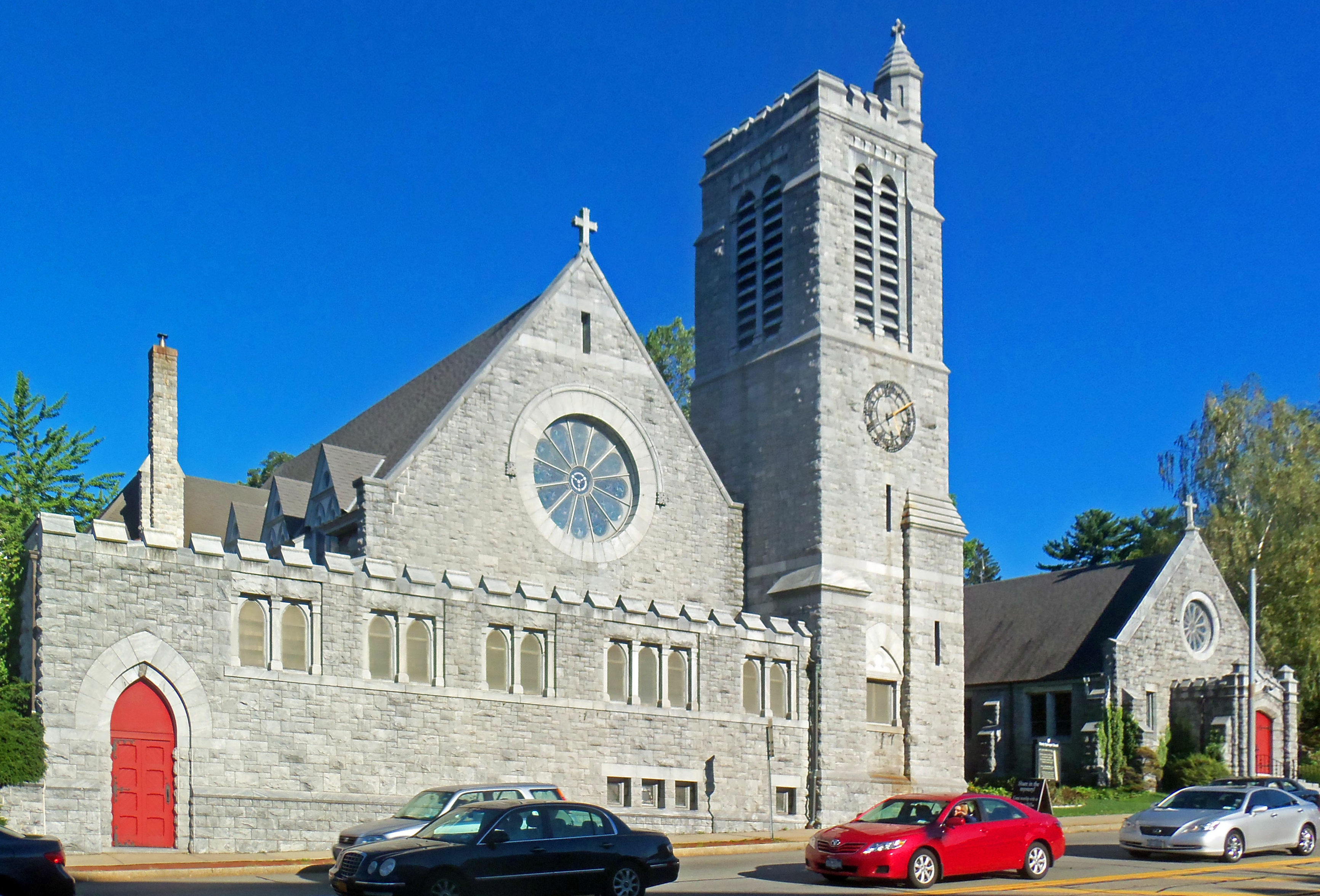 Trinity Episcopal Church, designed by Robert W. Gibson, a contributing property to the Downtown Ossining, NY, USA, Historic District